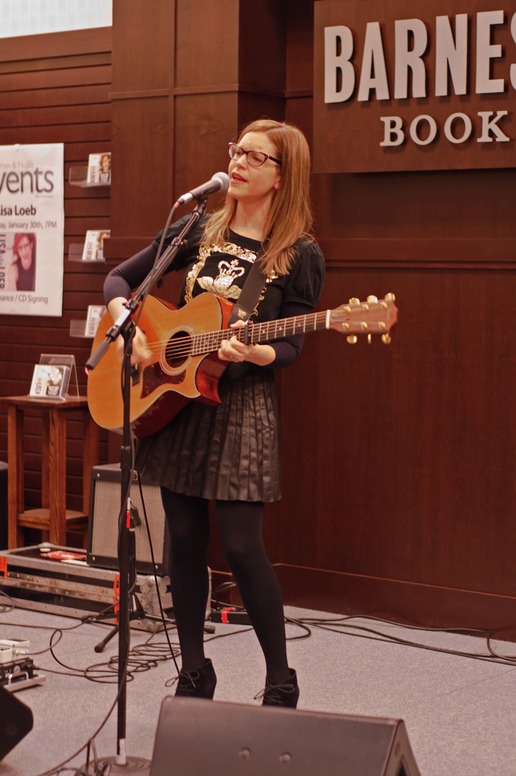 Lisa Loeb performing live acoustic at the Magic Bag in Ferndale, MI, 12/4/14